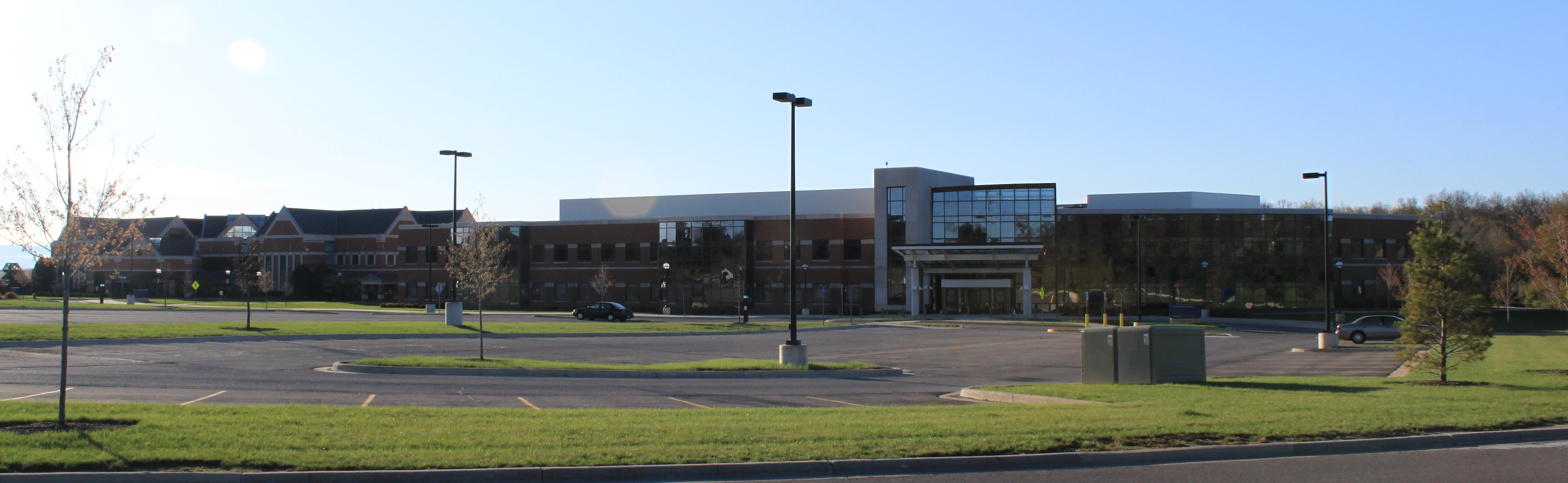 University of Michigan Health System east campus on Plymouth Road in Ann Arbor.